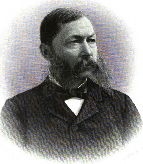 Moses W. Field (Michigan Congressman)